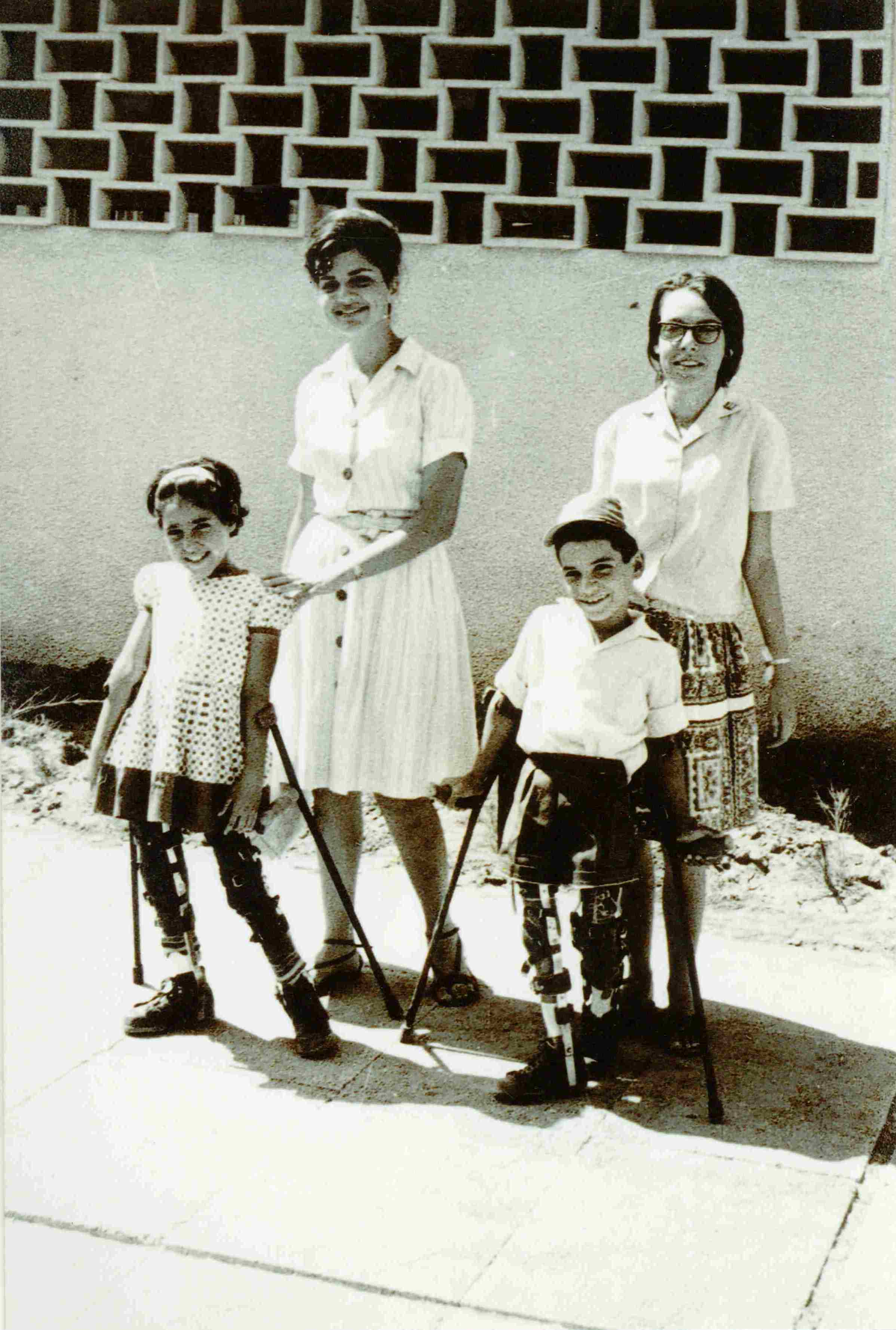 Disabled Children from Netivot and the surrounding moshavim (hit by polio) attended a summer camp organized by the Alyn Branch in Netivot